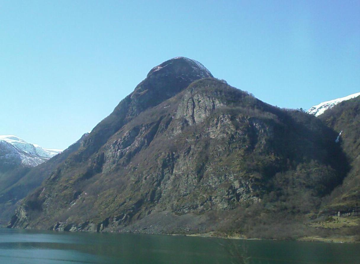 The mountain Flenjaeggi close to Flåm, Norway.